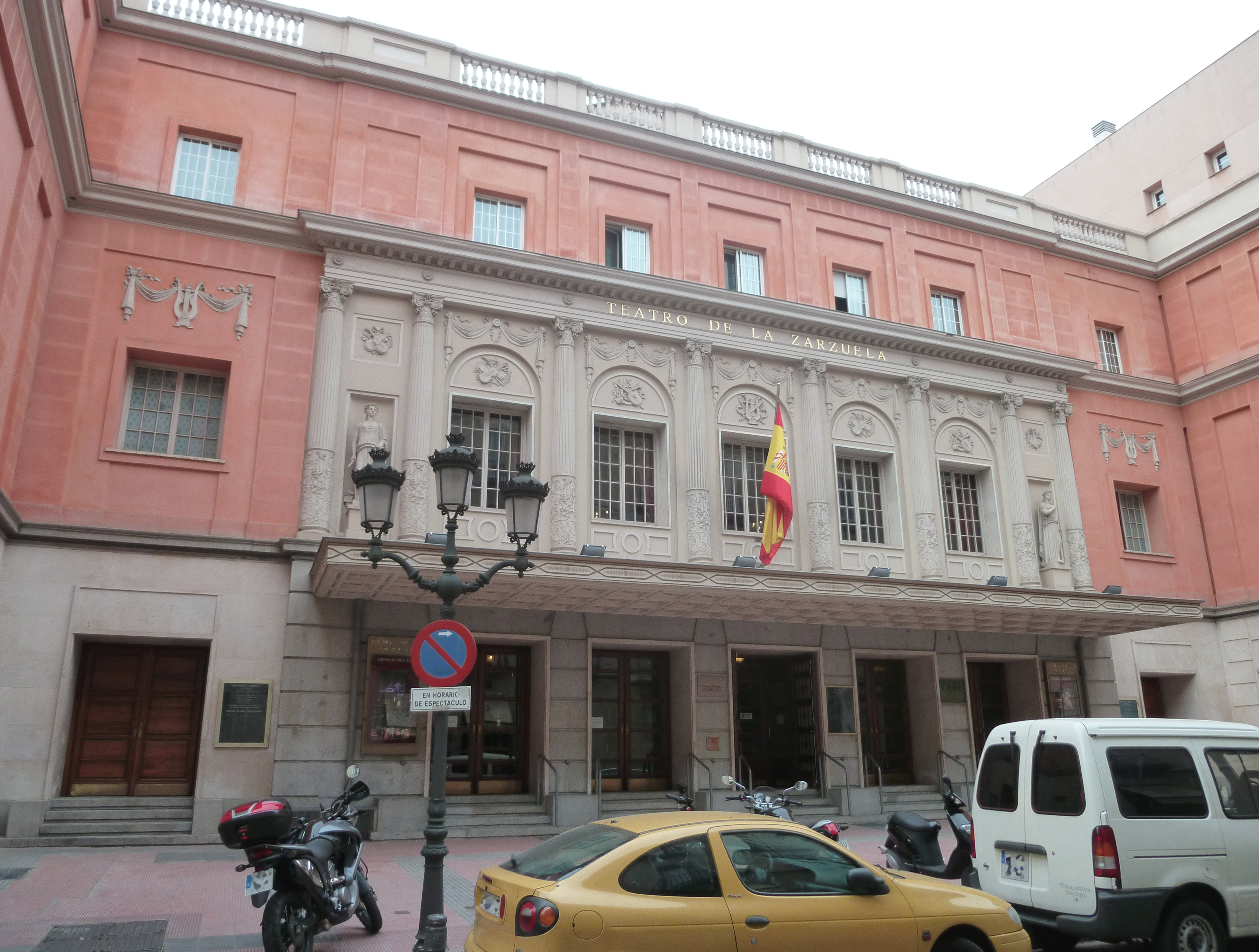 Façade of Teatro de la Zarzuela (a theater) in Centro district in Madrid (Spain).